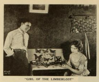 It is a scene from a lost silent movie taken from an old magazine.